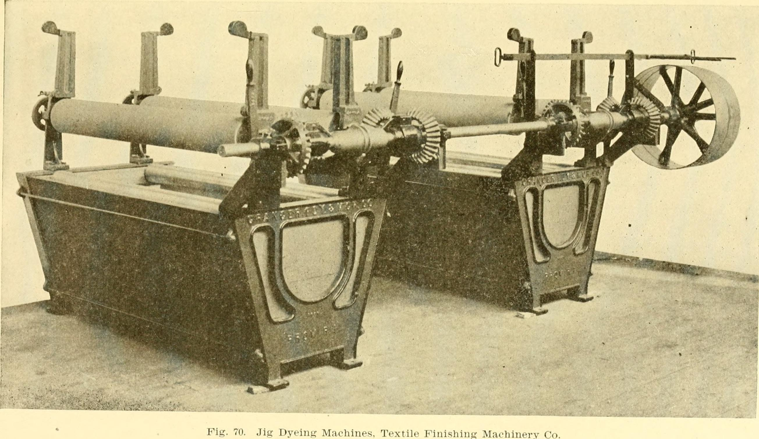 Title: Cyclopedia of textile work : a general reference library on cotton, woollen and worsted yarn manufacture, weaving, designing, chemistry and dyeing, finishing, knitting, and allied subjects Year: 1907 (1900s) Authors: Subjects: Textile industry Textile fabrics Publisher: Chicago : American school of correspondence Text Appearing Before Image: Pig. 69. Sectional View of Jig Dyeing Machine. have its flow reversed, entering at / and leaving at /.. The liquidthen flows through the material from the outside. By this two-fold direction of flow more uniform results in the dyeing are ob-tained. The dyeing being completed, the outlet valves m are openedand the hydro-extracting carried out in the usual manner. Jig Dyeing Machines already referred to under the BasicColors (See 170) are extensively used for dyeing cotton cloth in 188 TEXTILE CHEMISTRY AND DYEING 179 Text Appearing After Image: 180 TEXTILE CHEMISTRY AND DYEING the open or full width with both the direct cotton and sulphurcolors.. A jig dyeing machine (See Figs. 09 and 70) consists of adye vat D, and two fixed rollers A and B, worked by a series ofgears. At the beginning of the operation the cloth to be dyed issmoothly wound upon one of the fixed rollers A, and then passedthrough the dye vat in the direction indicated by the arrowheadonto the second fixed roller B. The cloth is then passed throughthe dye liquor back on to A, and so on back and forth until thedyeing is completed. At the end of the operation the cloth iswound onto the movable roll C, which sets into the slotted uprightE. Ten to fifteen pieces of cloth are sewn together in a continu-ous piece and passed through the dye liquor at the rate of aboutone minute per piece. The vat portion D should be as small aspossible, and usually holds from thirty-five to forty-five gallonsof liquor. Cotton warps are uusually dyed in a machine similar to thatrepres